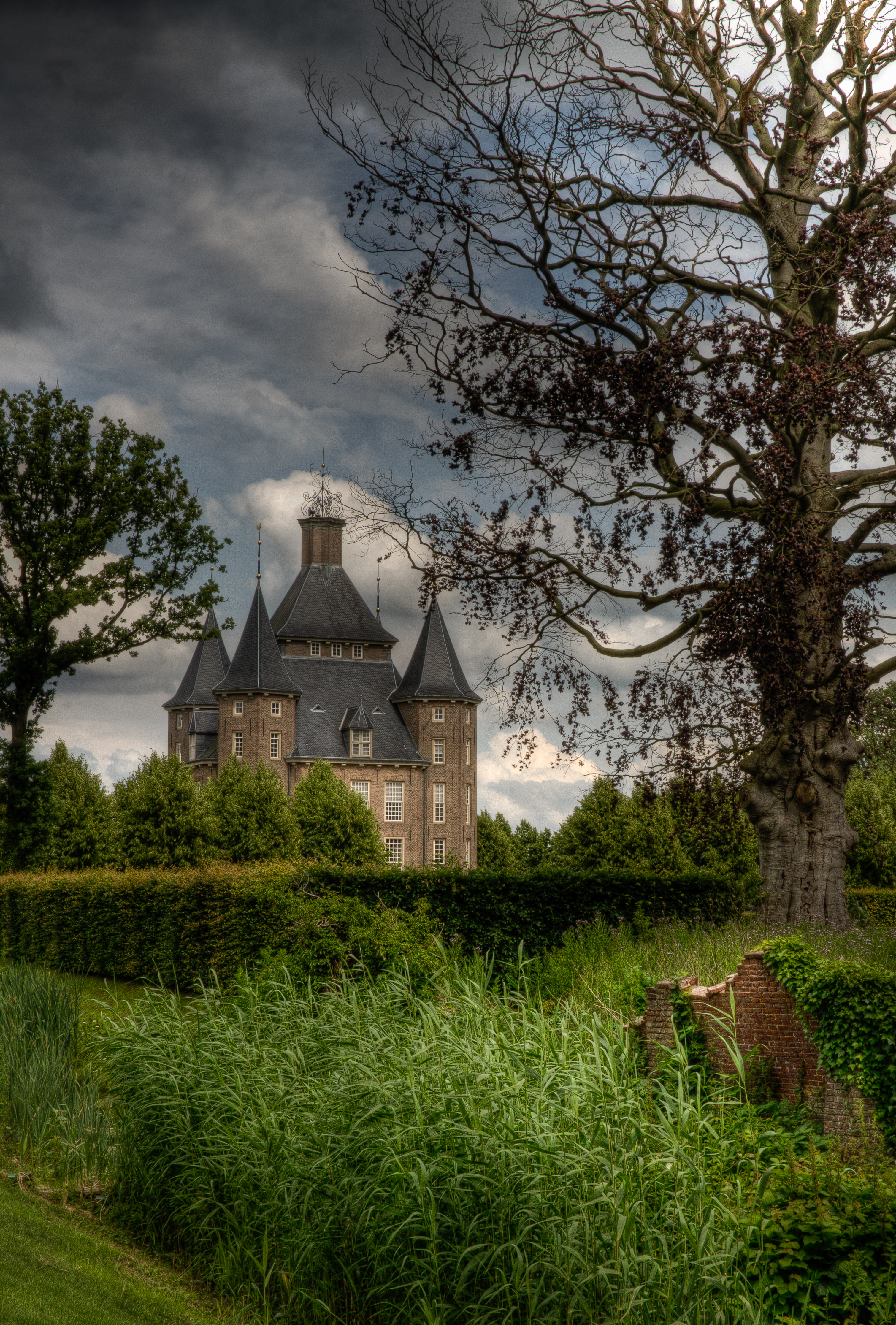 Kasteel Heemstede (Houten, The Netherlands), looking from the west